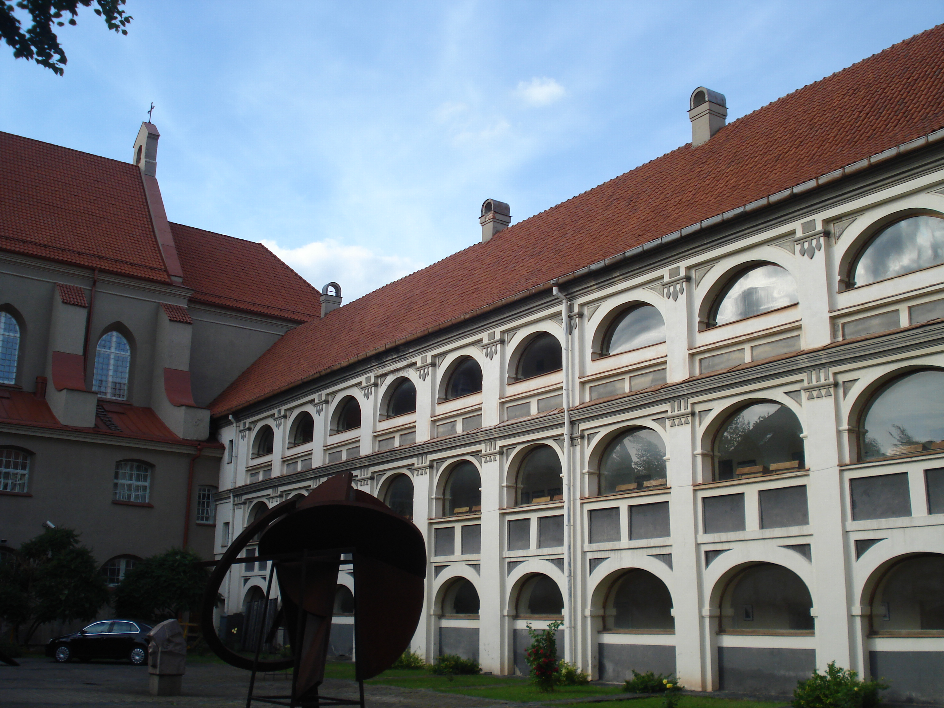 St. Ignatius Jesuit novitiate in Vilnius (Lithuanian Technical Library). Šv. Ignoto g. 6